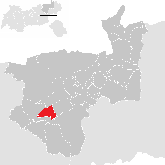 District Kufstein